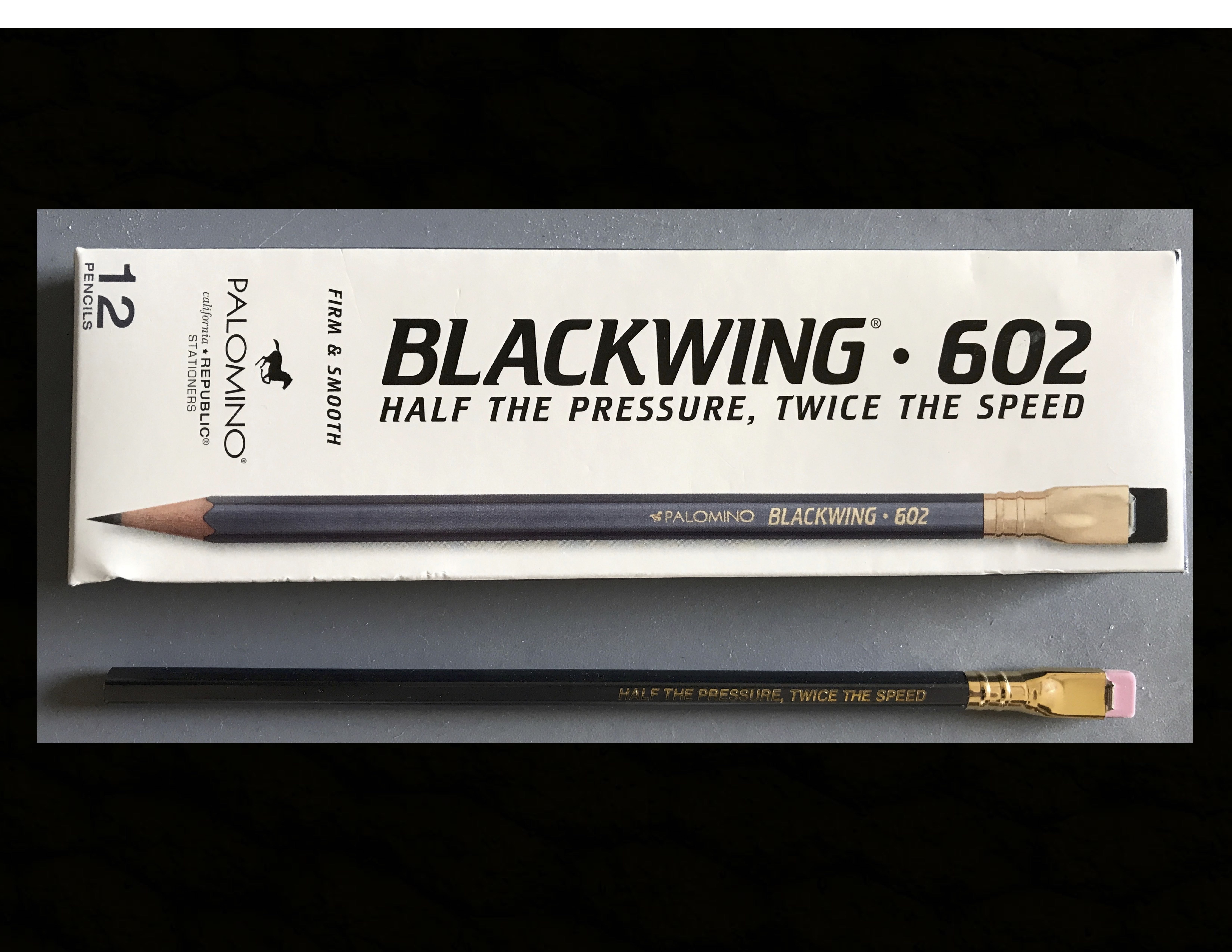 Palomino Blackwing 602